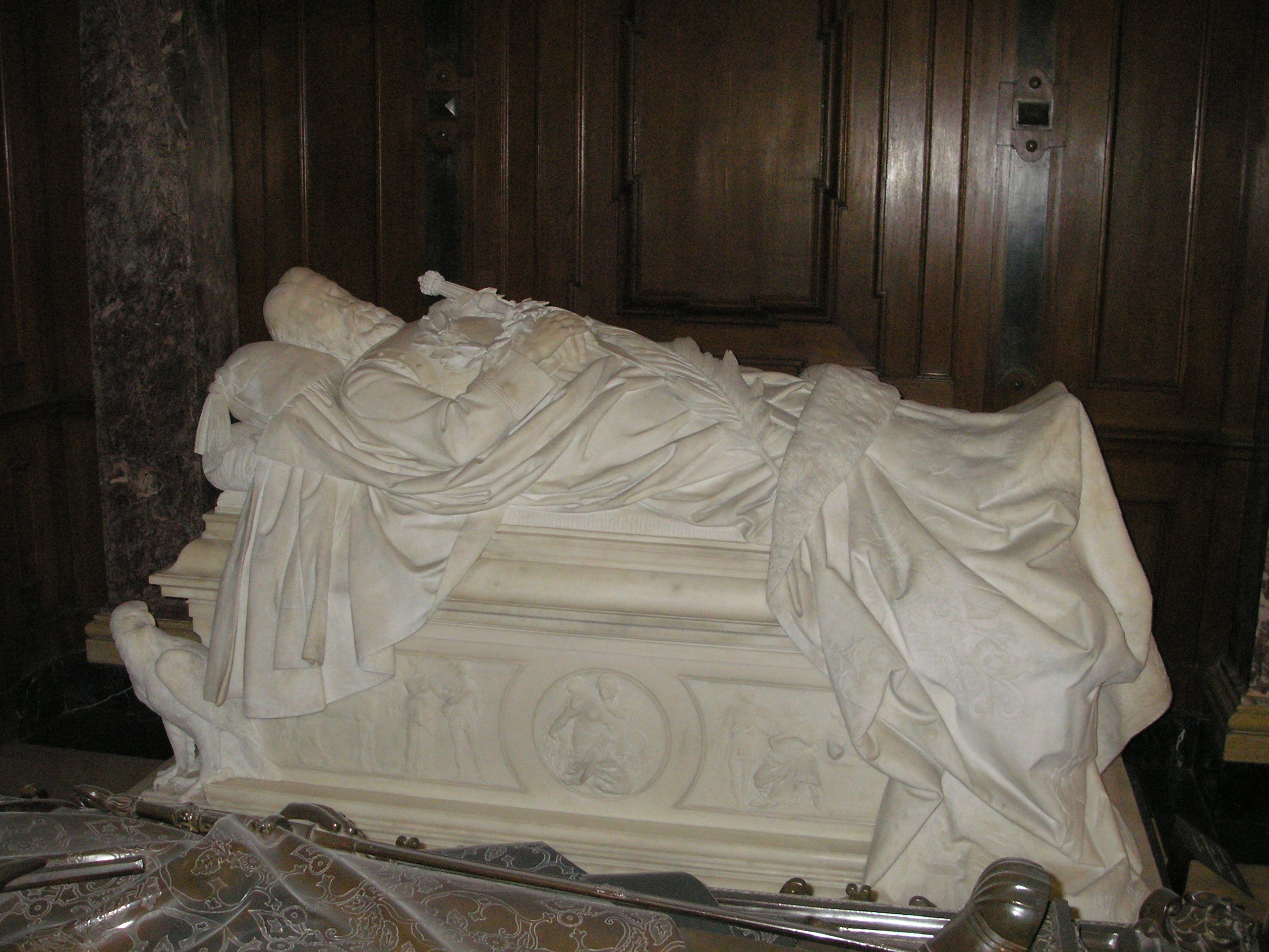 Description: Cenotaph or tomb of Emperor Friedrich III of Germany. Designed by Reinhold Begas. Located in the Berliner Dom. Source: self-made, I release it into the public domain. Gryffindor 14:11, 11 April 2006 (UTC)